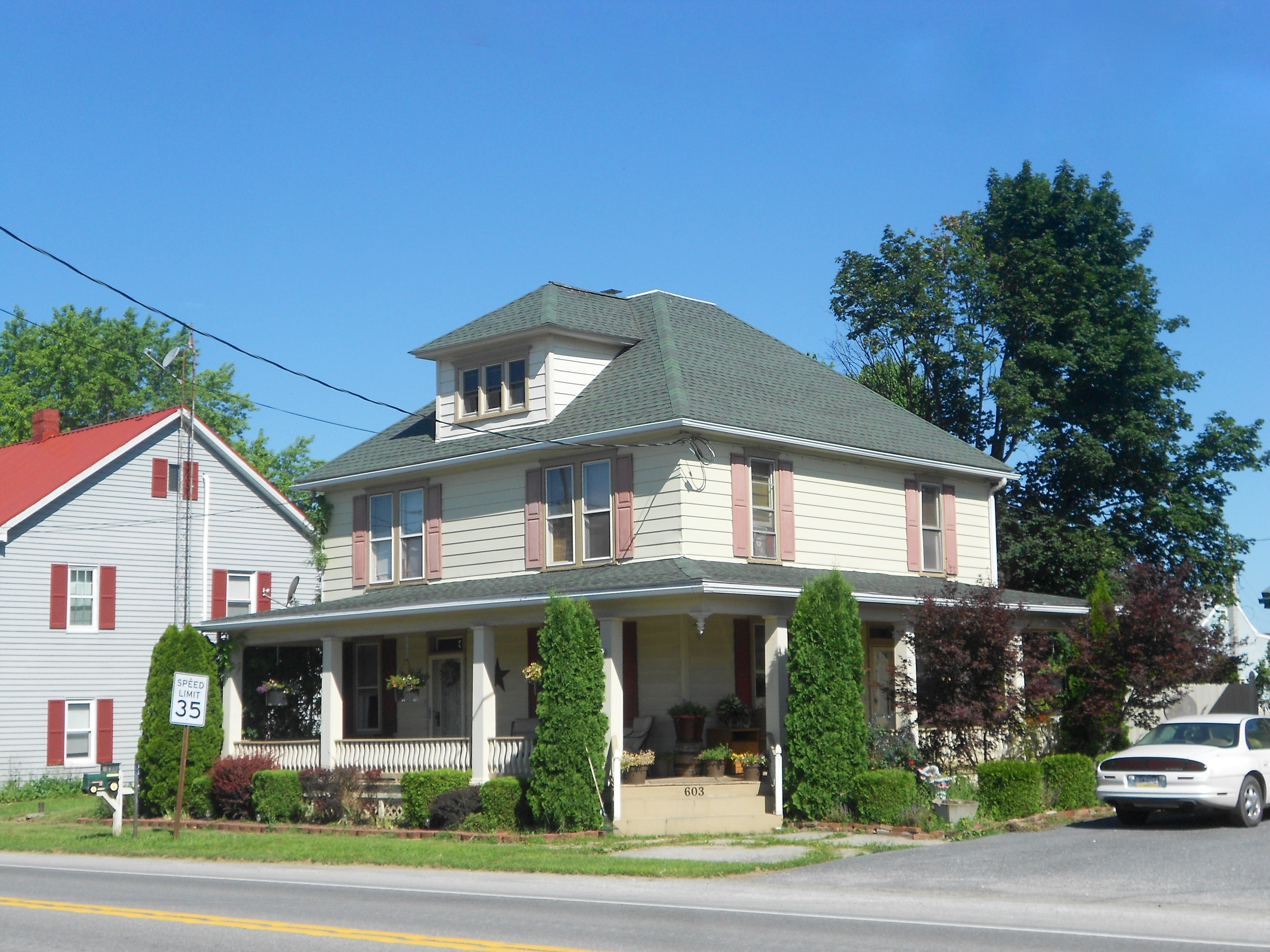 House in Lee's Crossroad in Southampton Township, Cumberland County, Pennsylvania